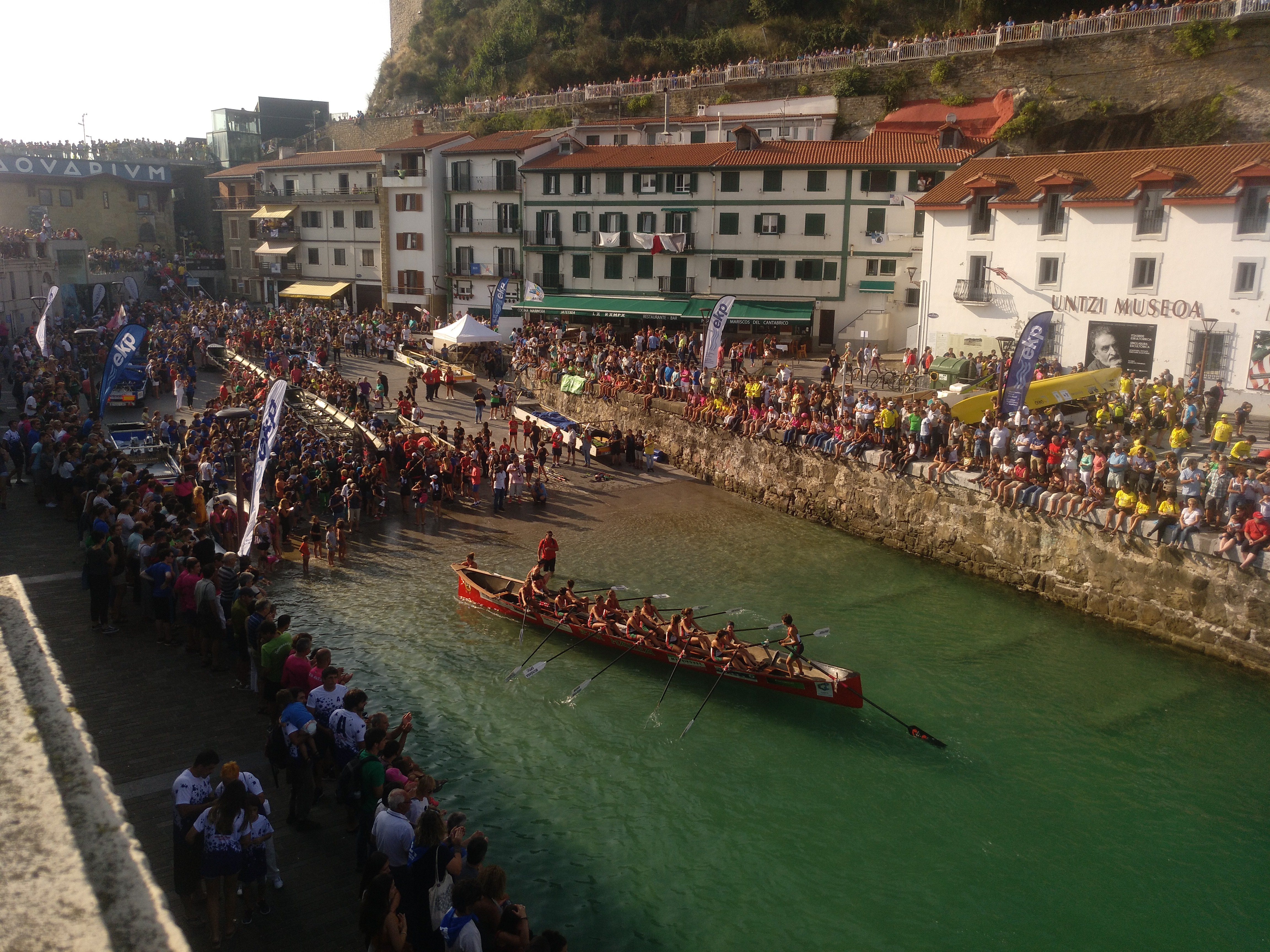 Lapurdiko AT, women, Flag of La Concha, 2018